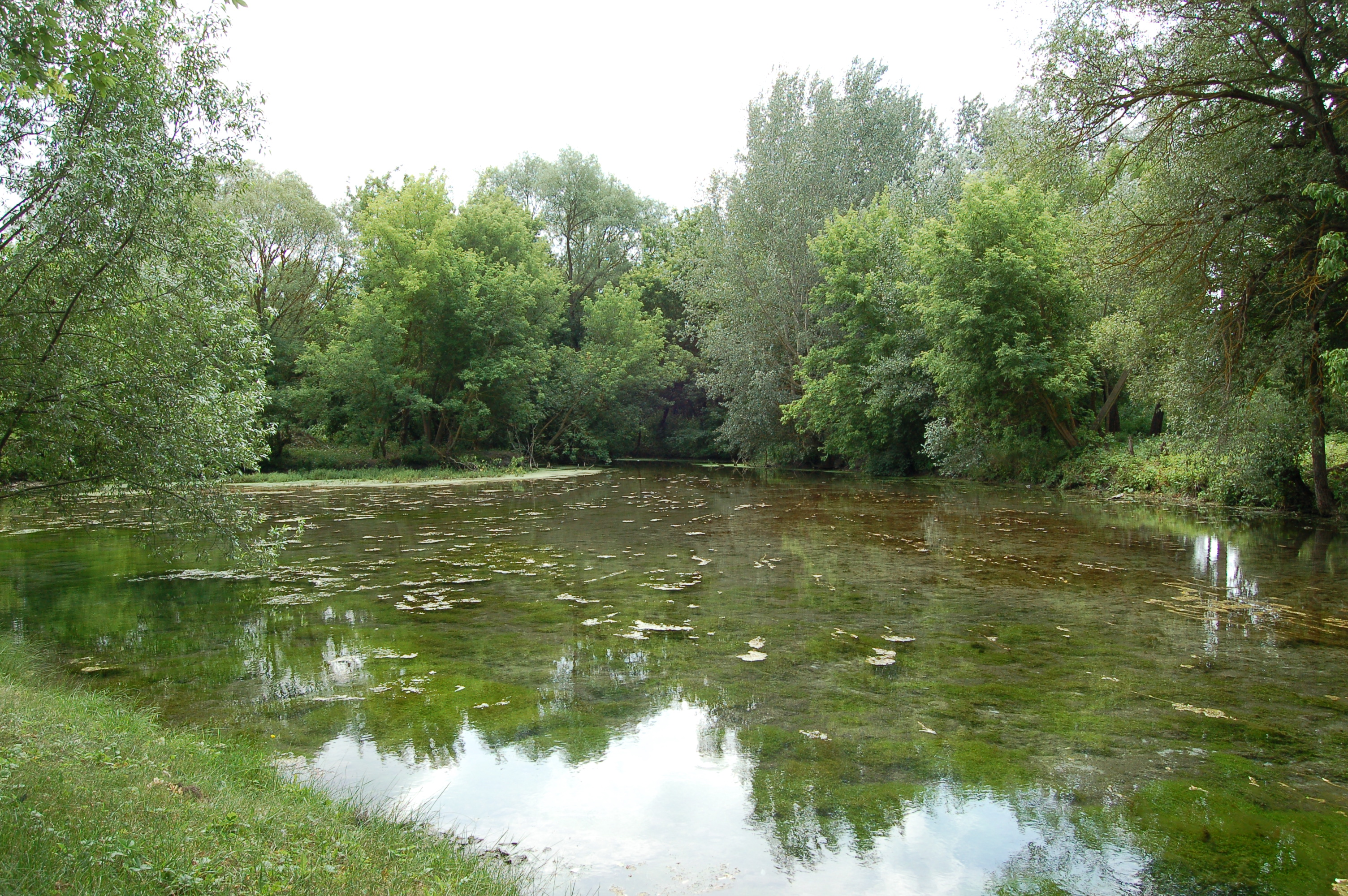 Seversky Donets source lake